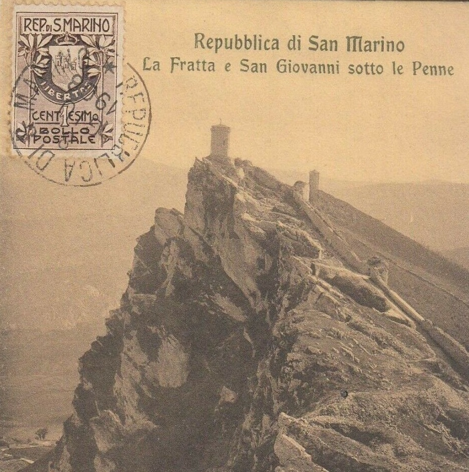 Postcard of San Giovanni SLP